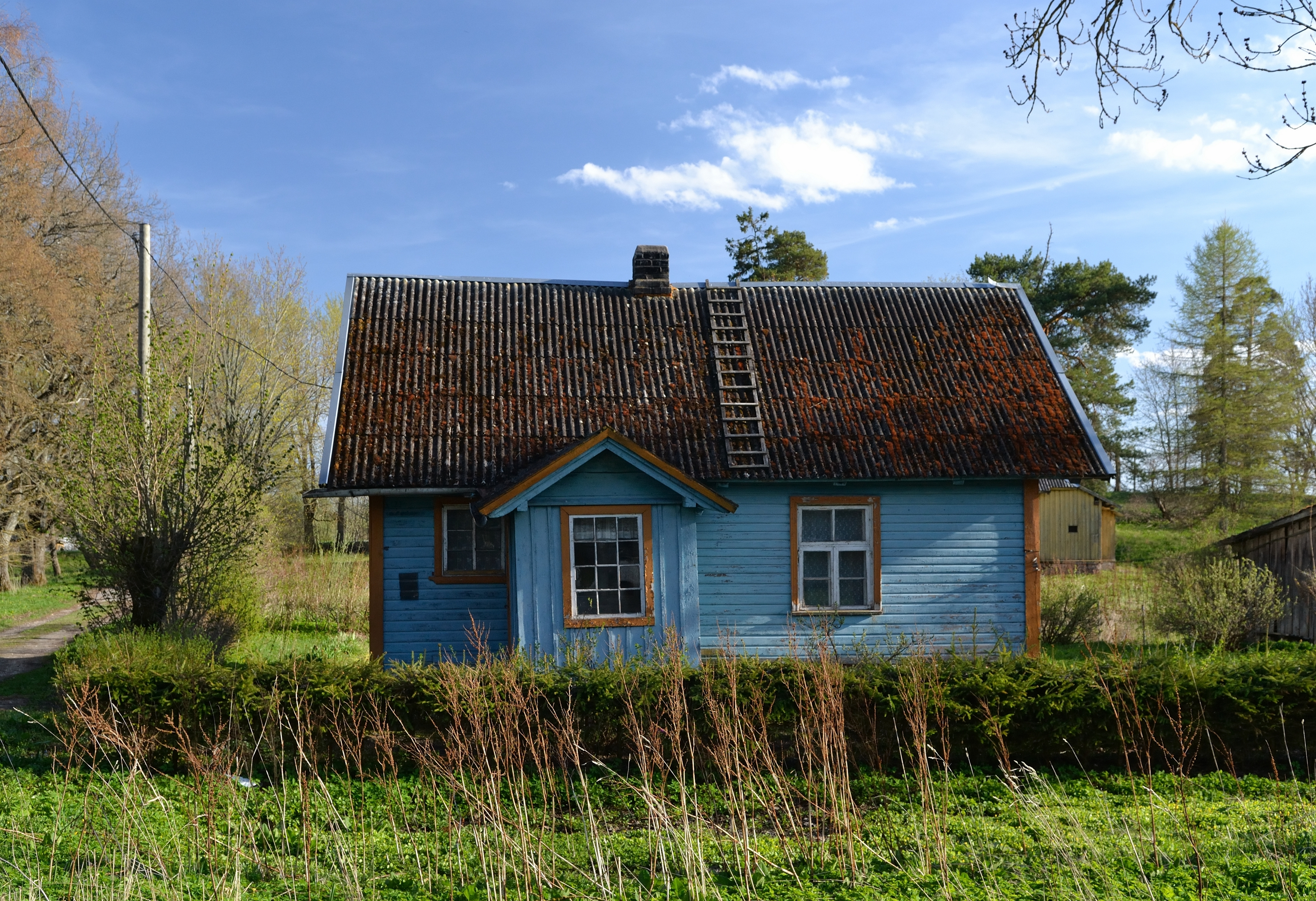 Käravete manor dogs house